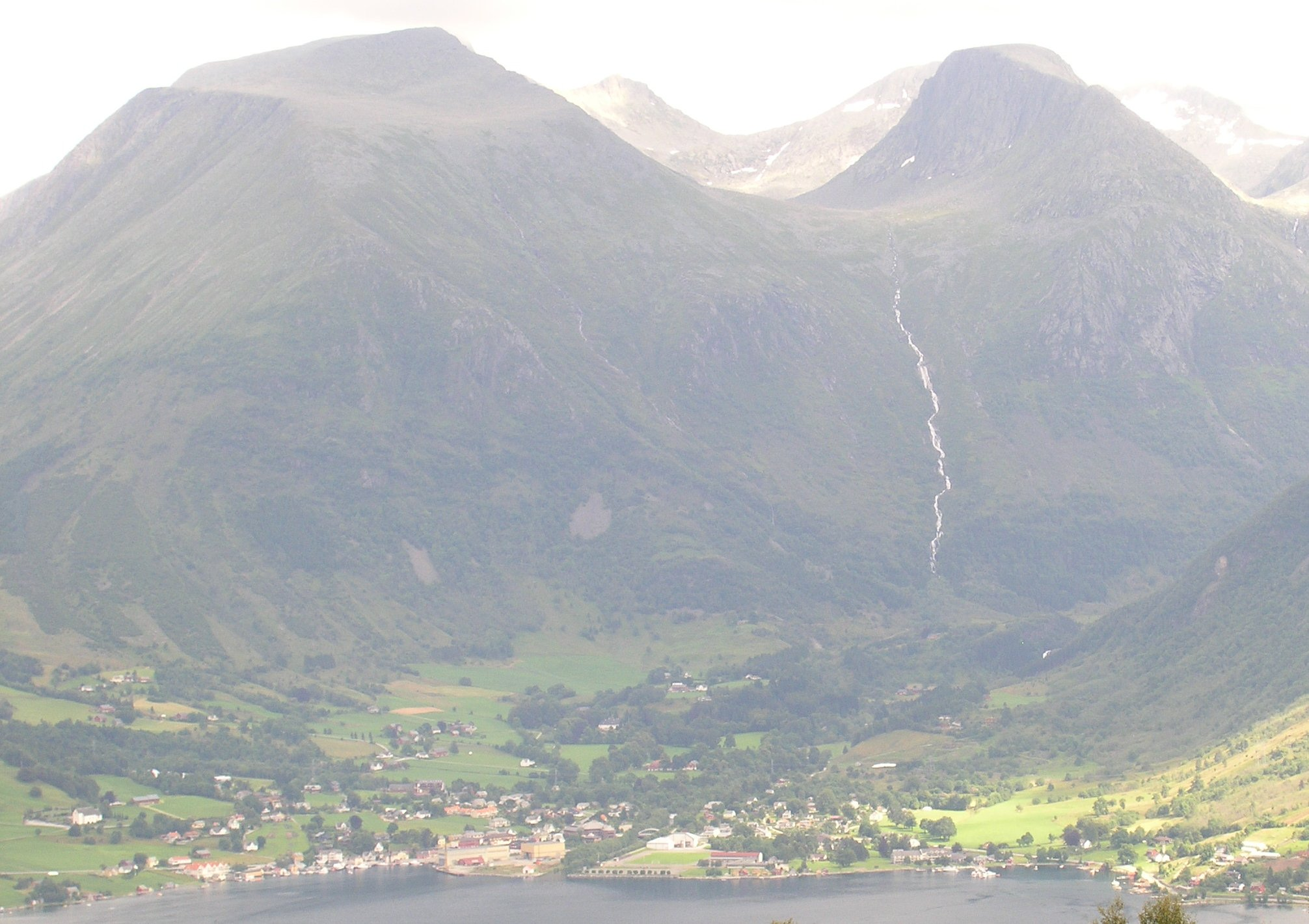 Rosendal from Veten on Snilstveitøy